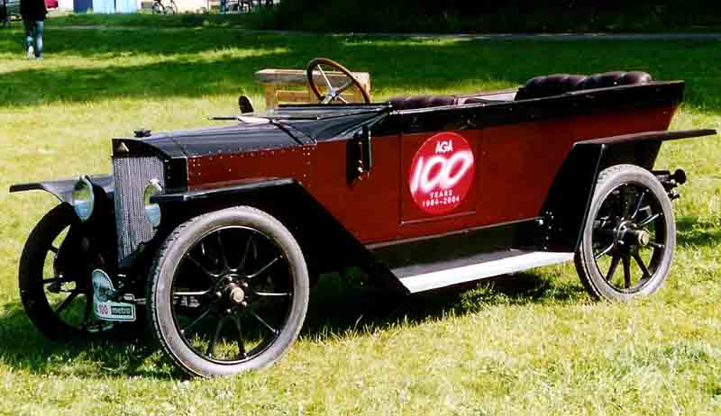 AGA 6/20 PS Typ C Phaeton 1922